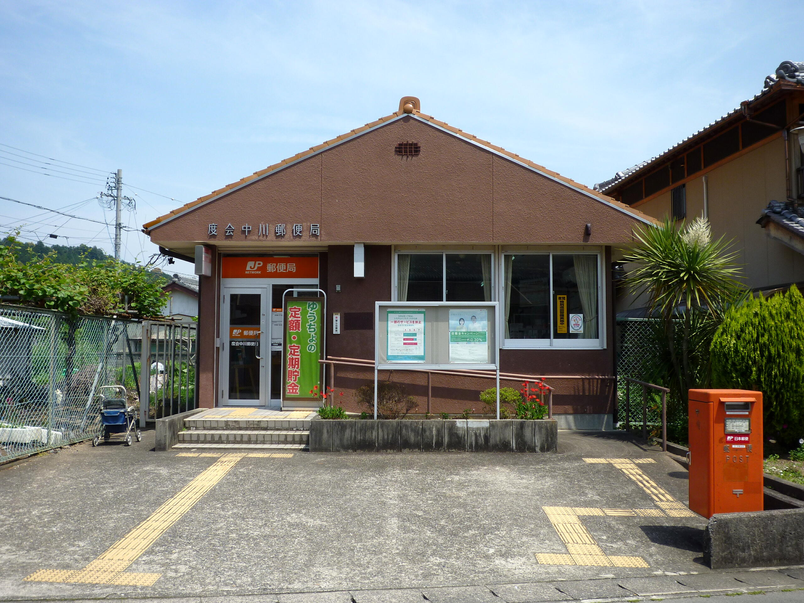 The "Watarai-Nakagawa Post Office" in Watarai Town, Watarai District, Mie Prefecture, Japan.